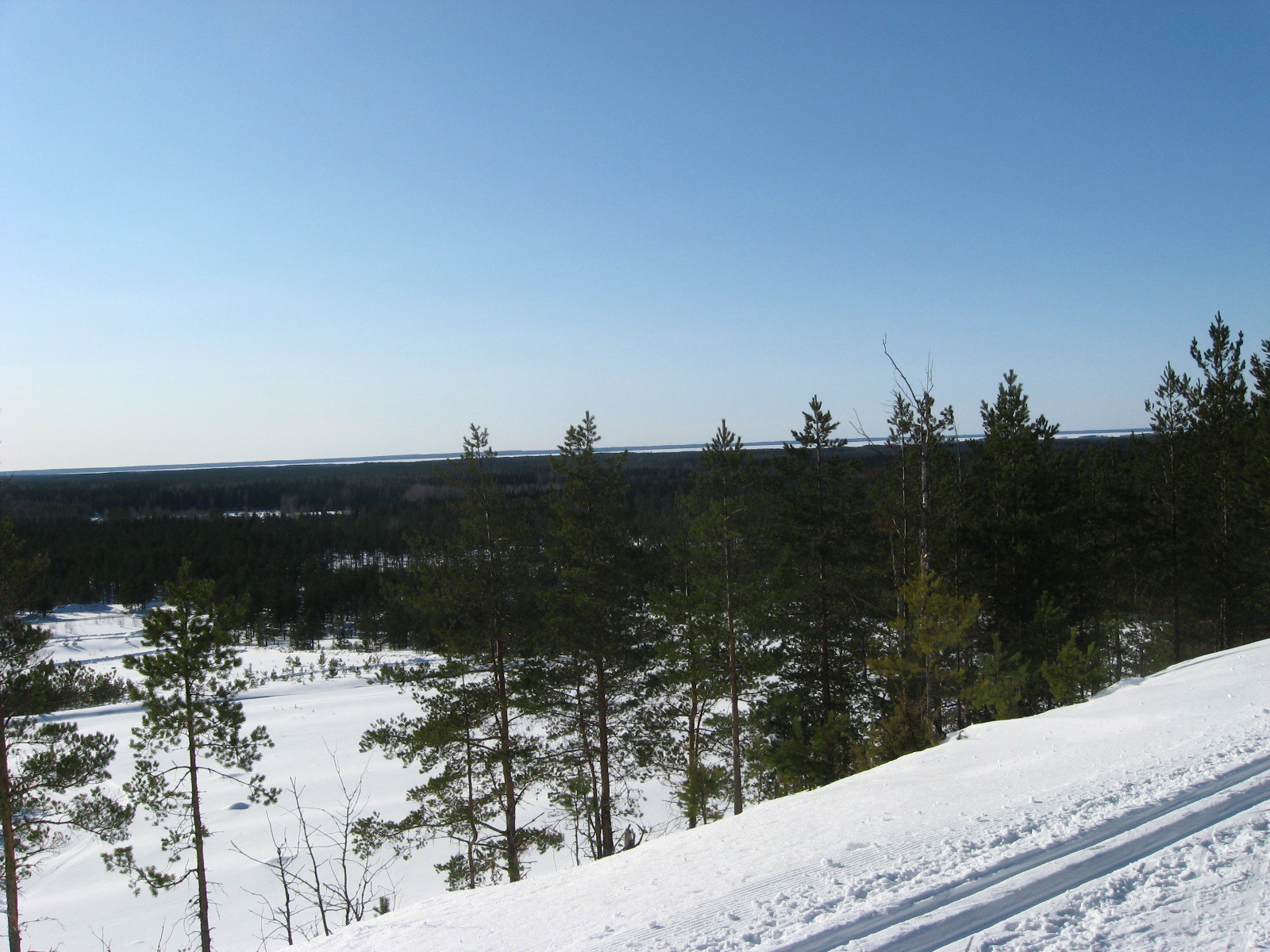 A view from Säkylänharju, Säkylä, Finland.